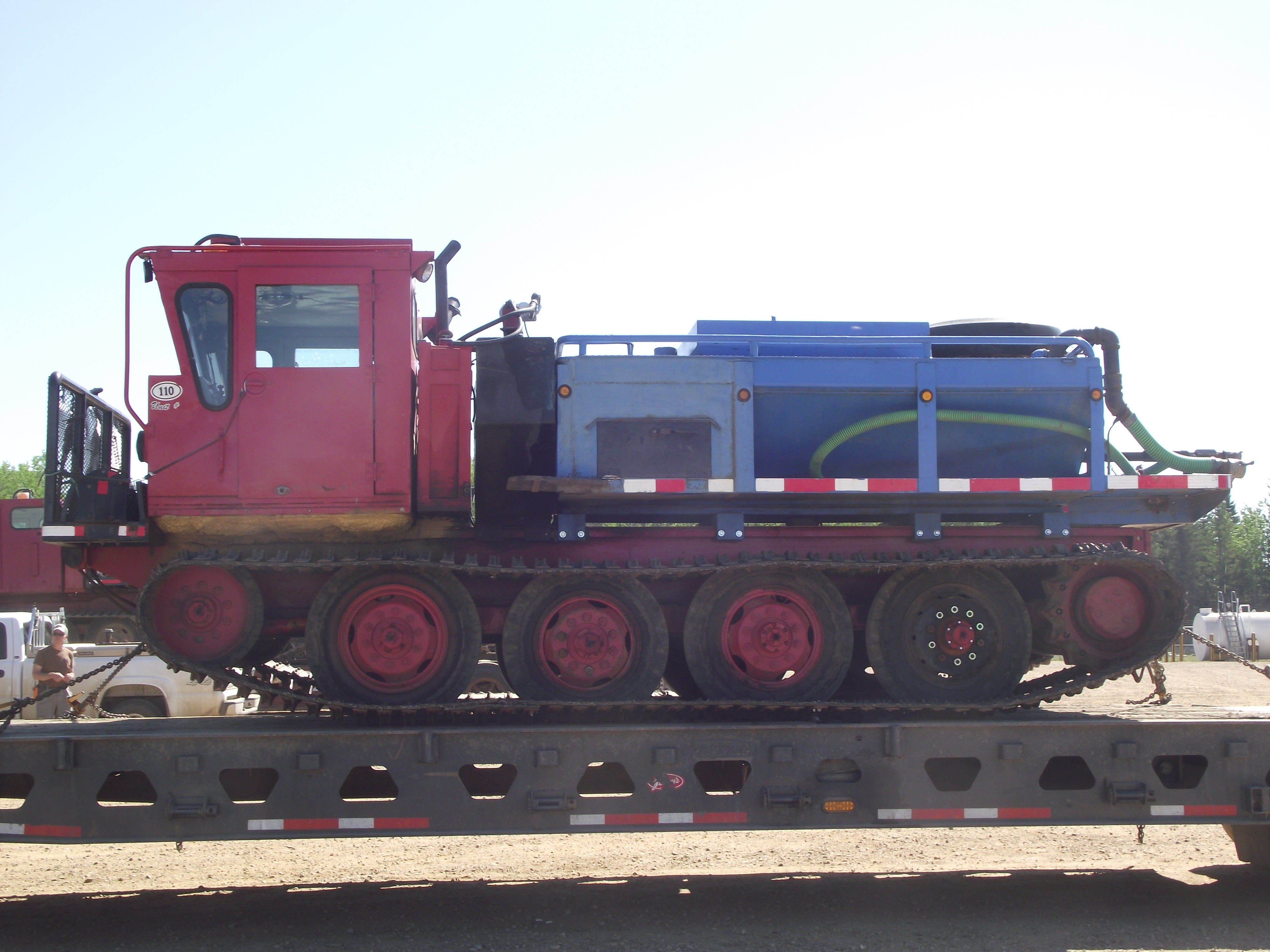 A Nodwell 110 tracked vehicle, equipped with a water tank for wildland firefighting. Location is Forestry Warehouse yard, Fort McMurray, Alberta, Canada